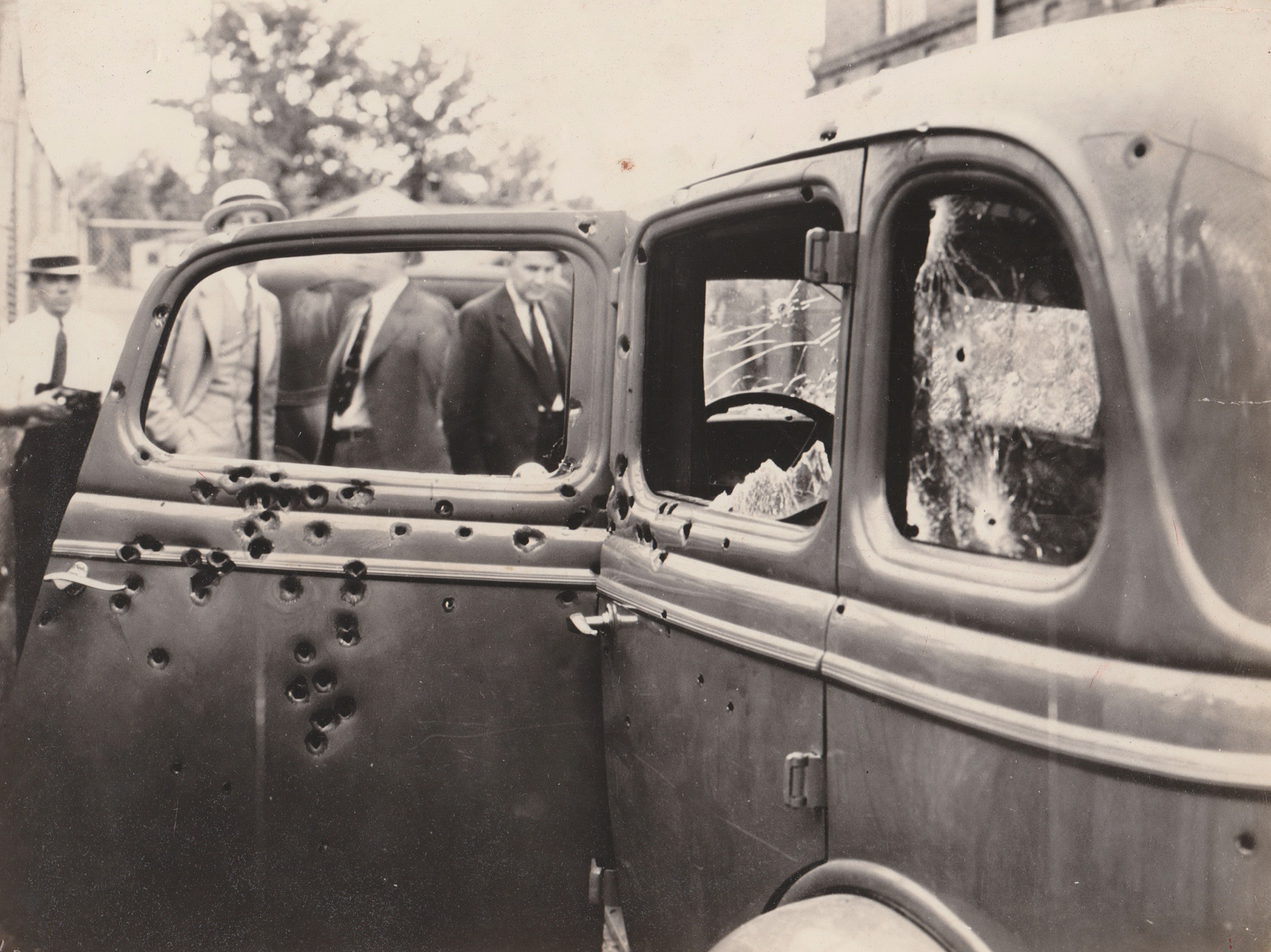 Bonny and Clydes car (1932 Ford V-8), riddled with bullet holes after the ambush. Picture taken by FBI investigators on May 23, 1934.